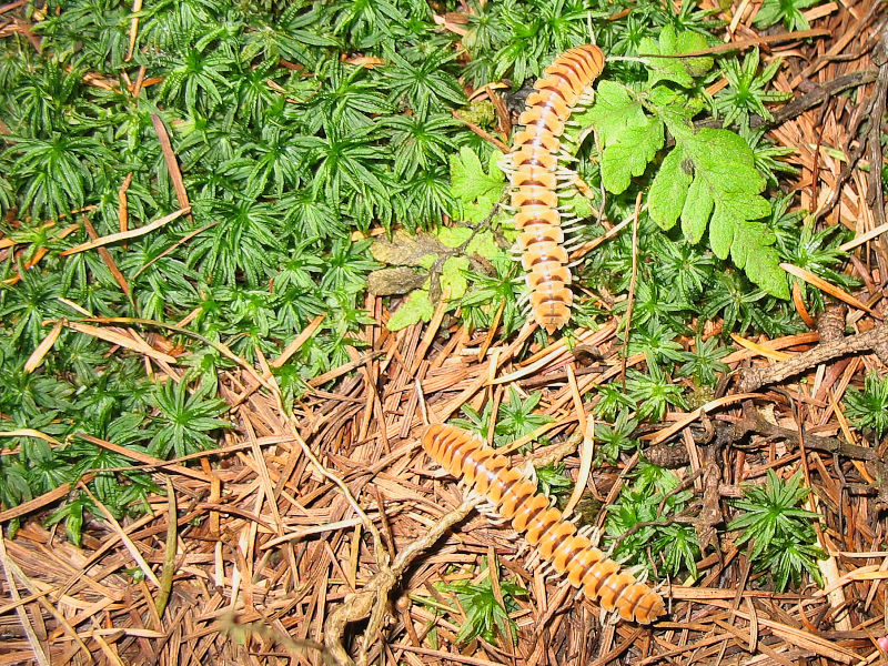 A Japanese Diplopoda, named "Kisha-Yasude".